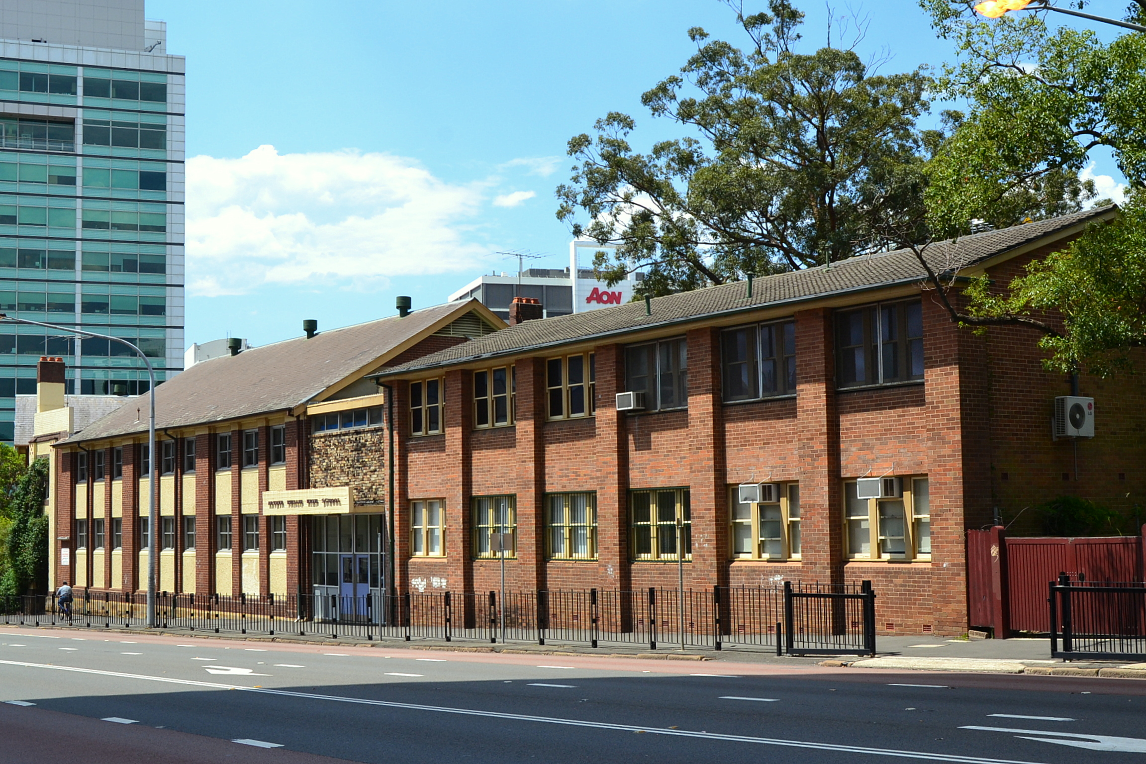 Arthur Phillip High School, Parramatta, Sydney